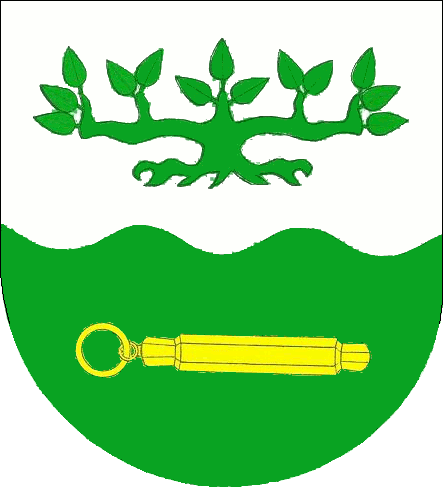 Coat of arms of the municipality Offenbüttel in Schleswig-Holstein, Germany.